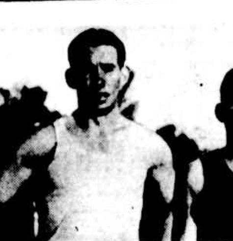 Leslie Watt at the Eltham sprints in 1936